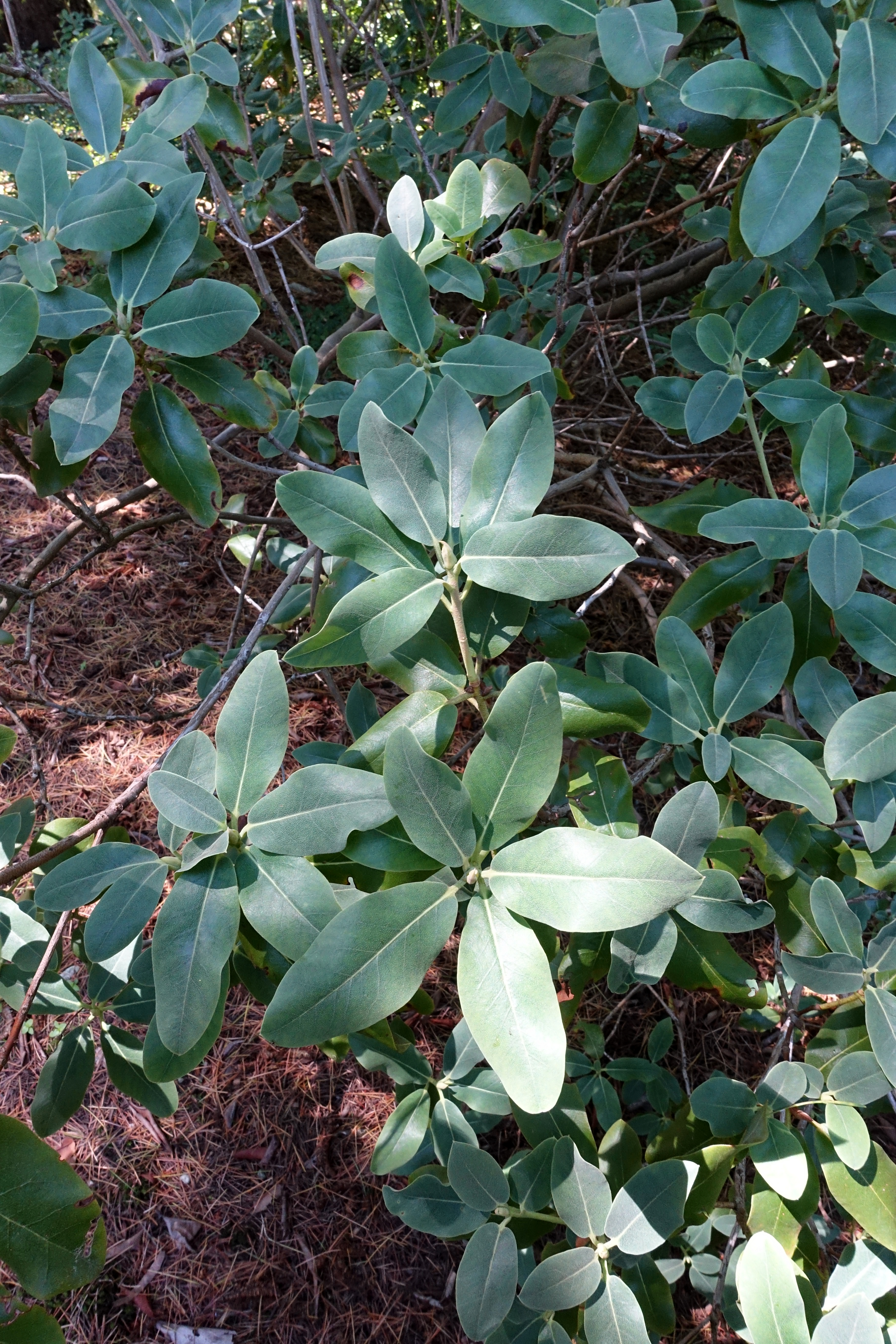 Botanical specimen in the VanDusen Botanical Garden - Vancouver, BC, Canada.